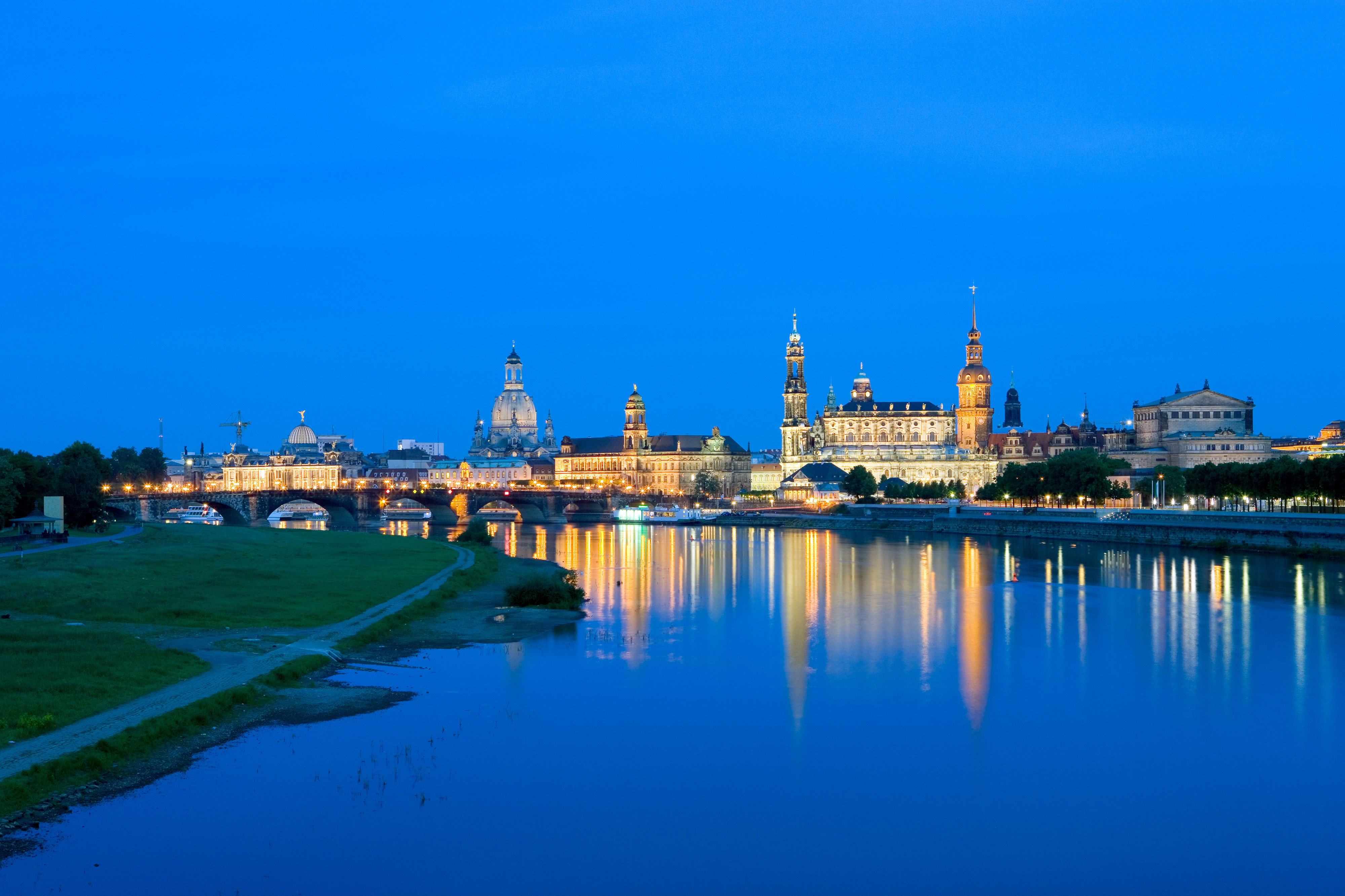 Dresden: Inner old town at early dusk as seen from the Marienbruecke (Mary's bridge)